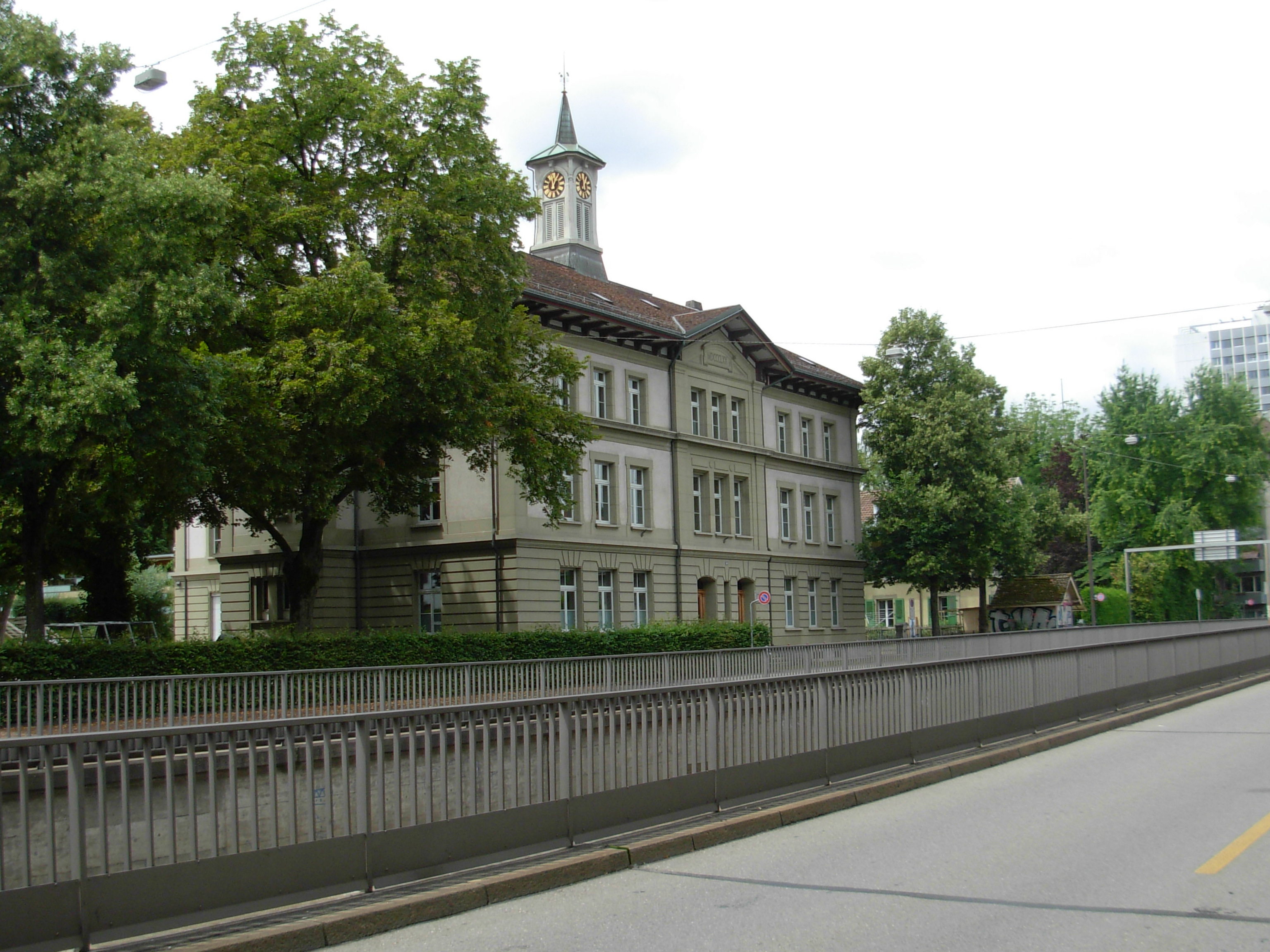 Sulgenbach school, buildt in 1867 (Bern, Switzerland)